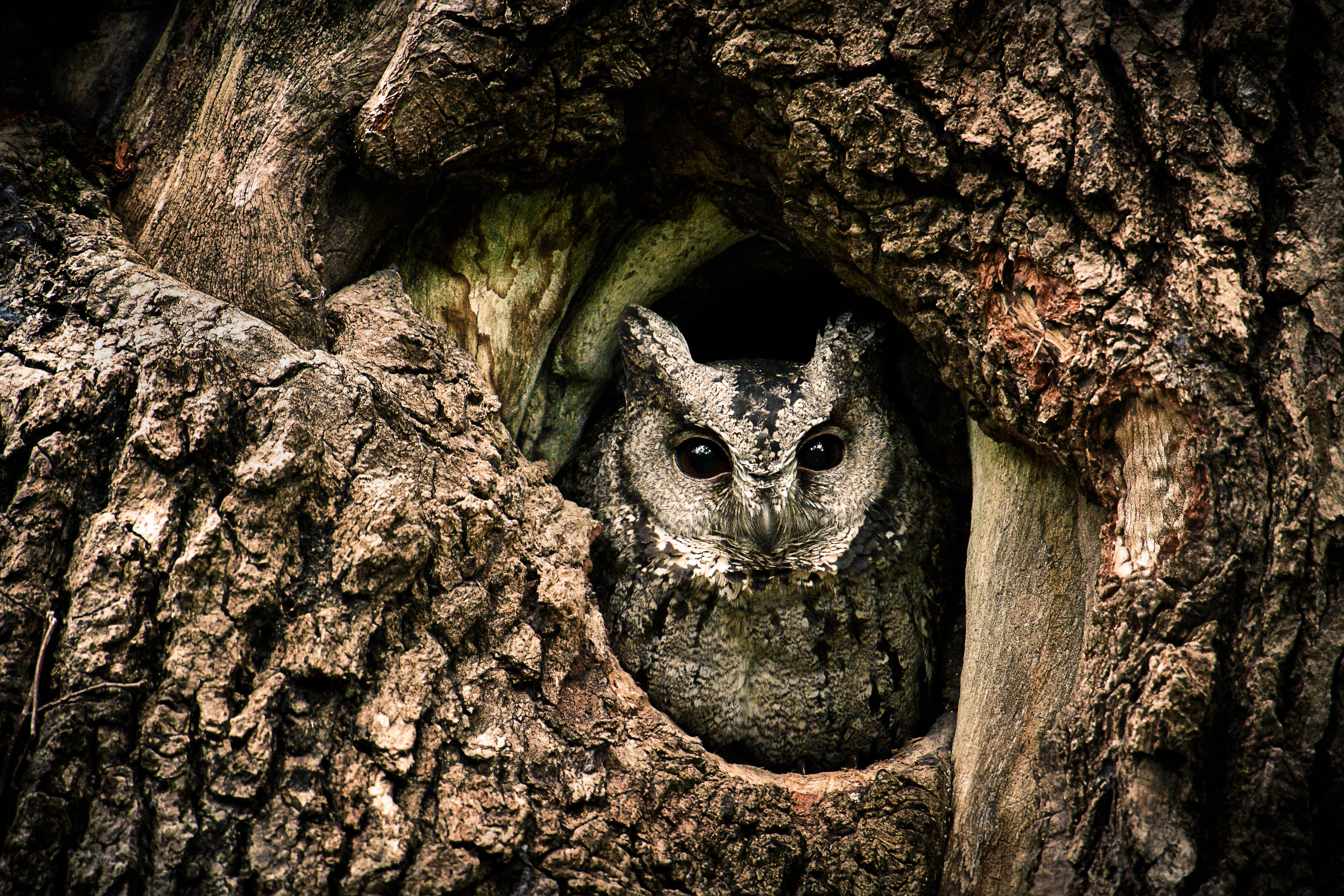 Collared Scops Owl Otus lettia, Taipei, Taiwan